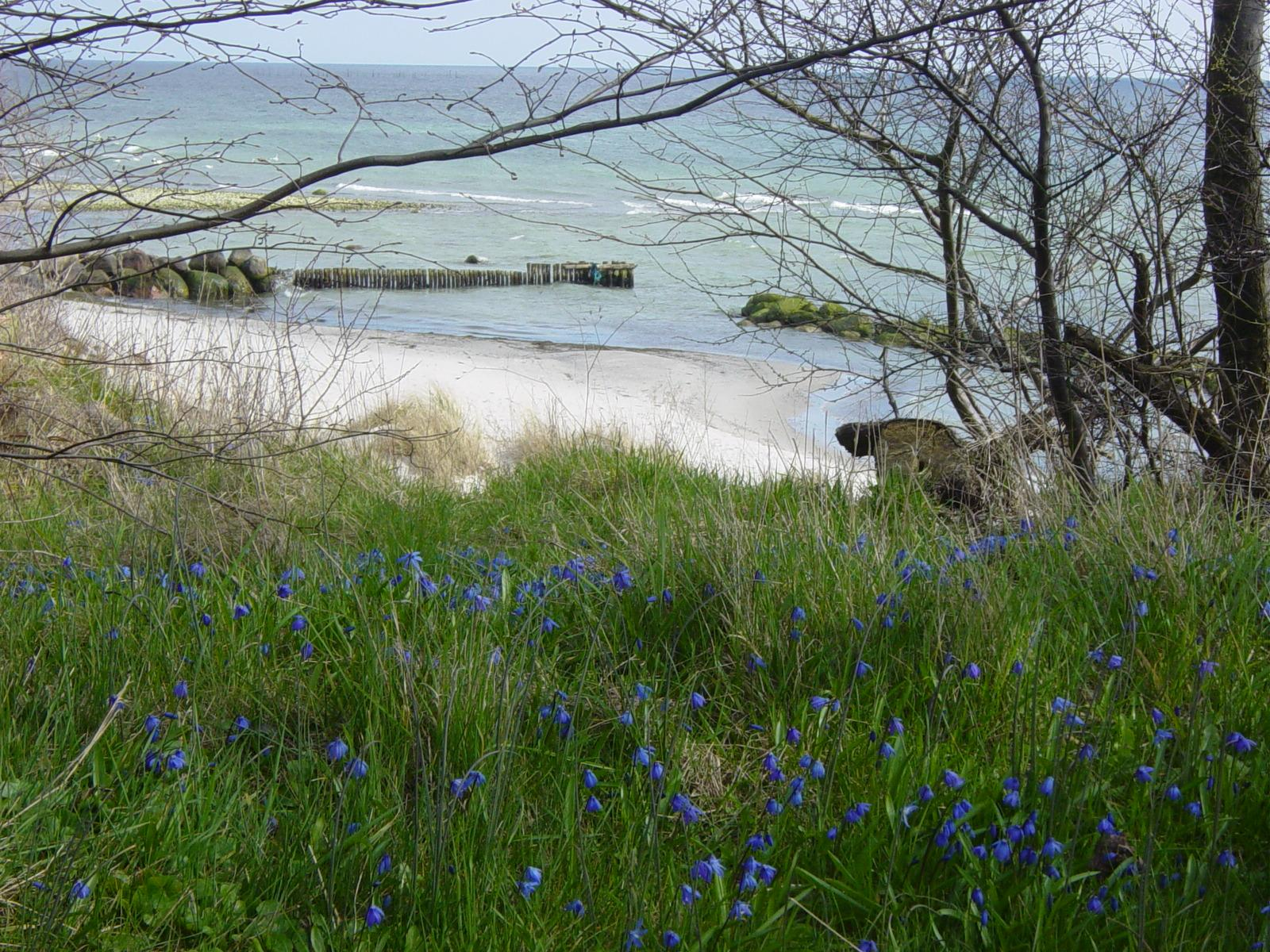 Råbylille Strand, Møn, Denmark: beach and sea from in early spring Author: Ipigott